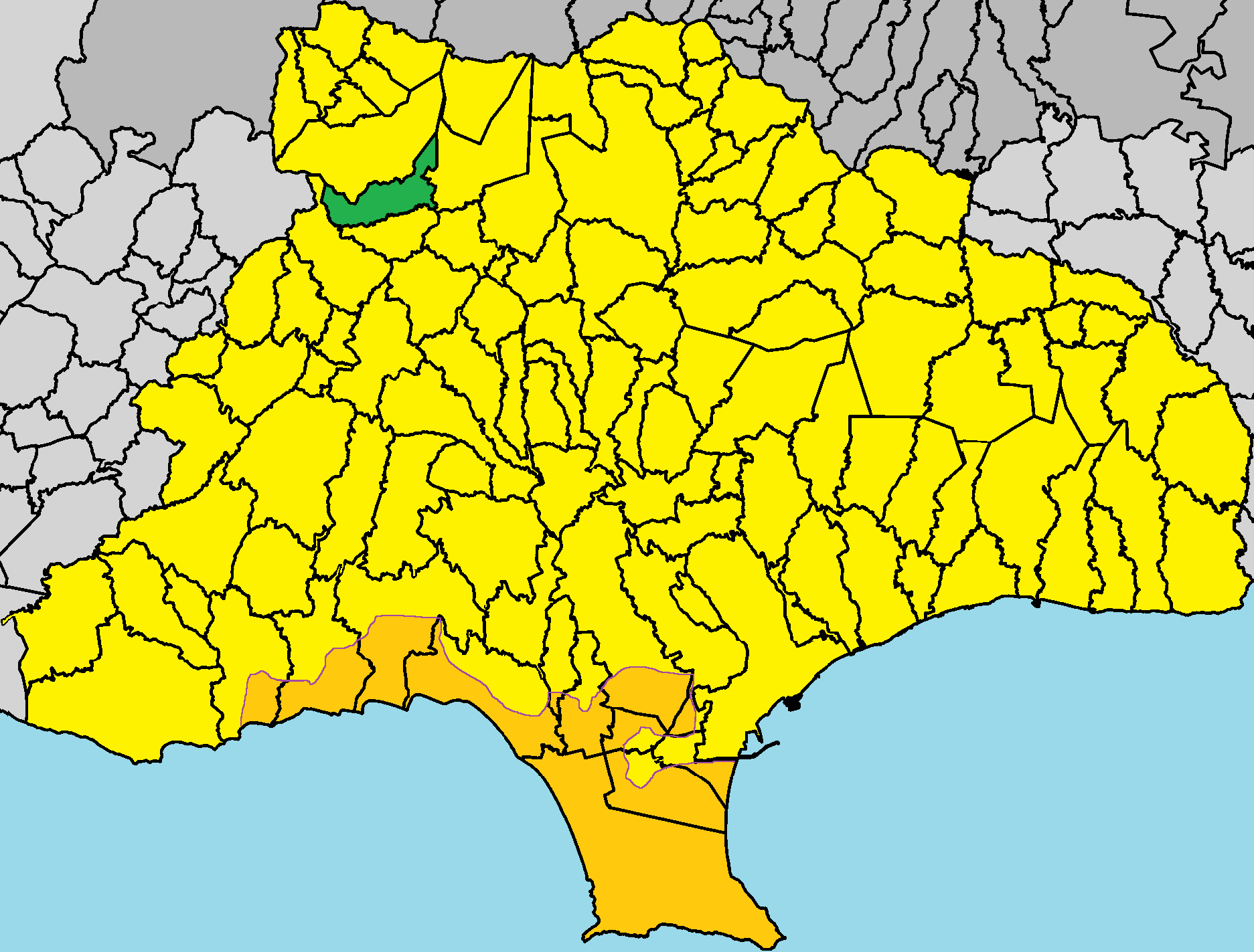 Kato Platres in Limassol District.